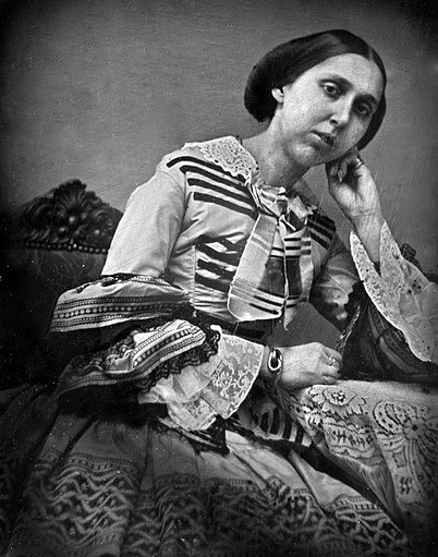 Daguerreotype photograph of Eugénie (1830-1889), Princess of Sweden.